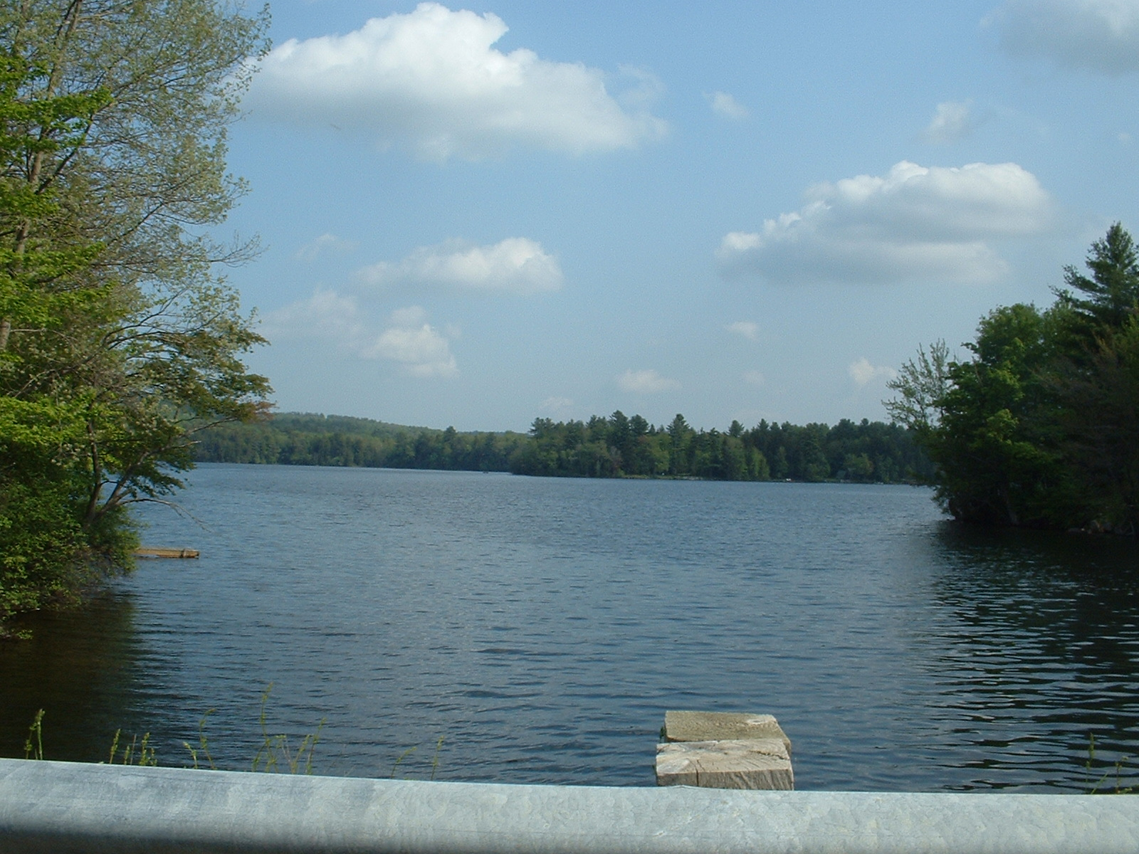 Ashmere Lake, Hinsdale, Massachusetts, looking north Taken along Route 143 westbound looking north, Hinsdale, MA.